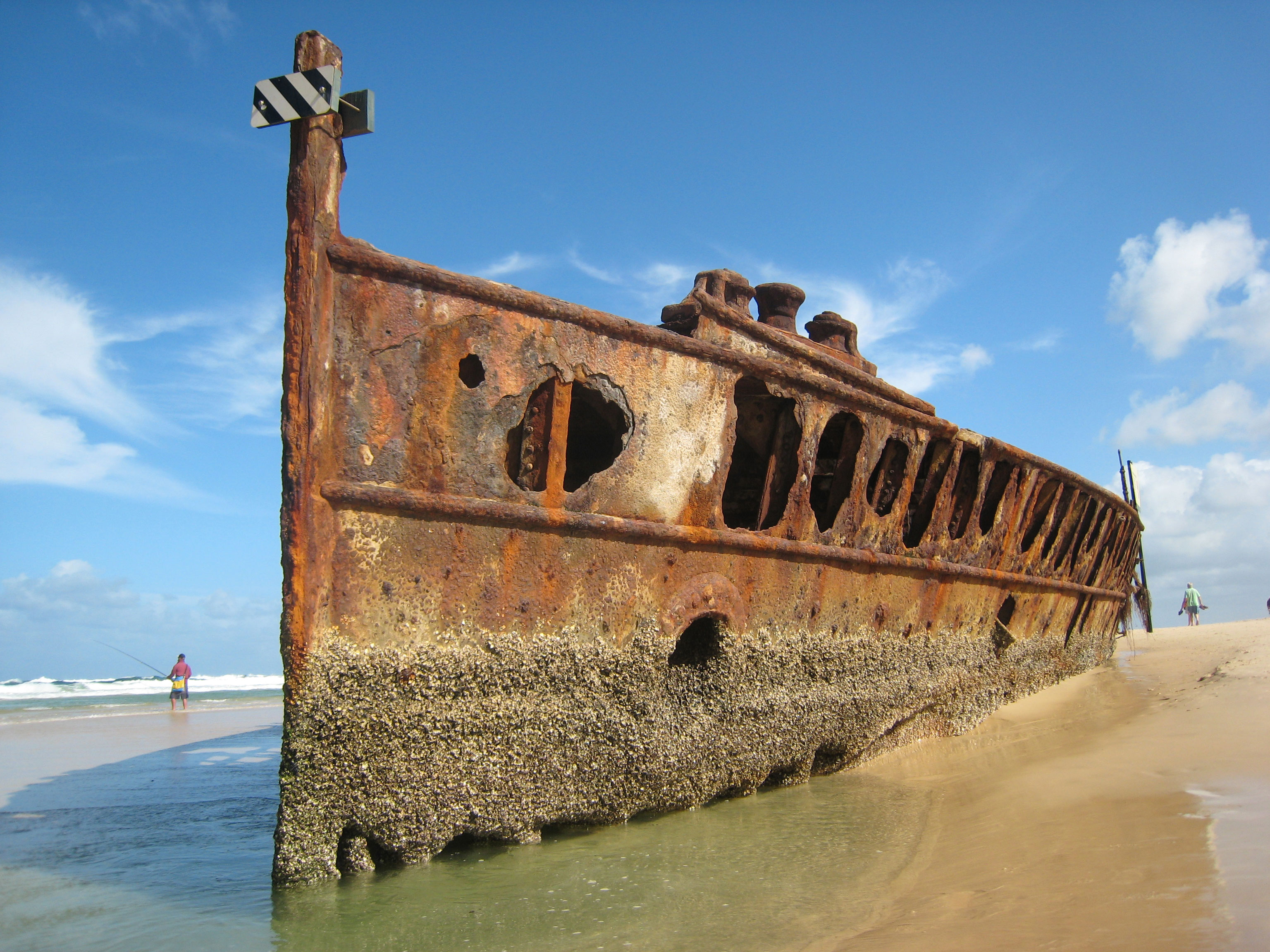 The S.S. Maheno on Fraser Island, Queensland, Australia.